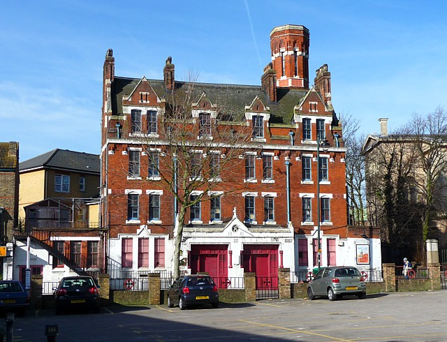 Former Fire Station, Norwood High Street. See South London Theatre 118125.jpg for fuller description.